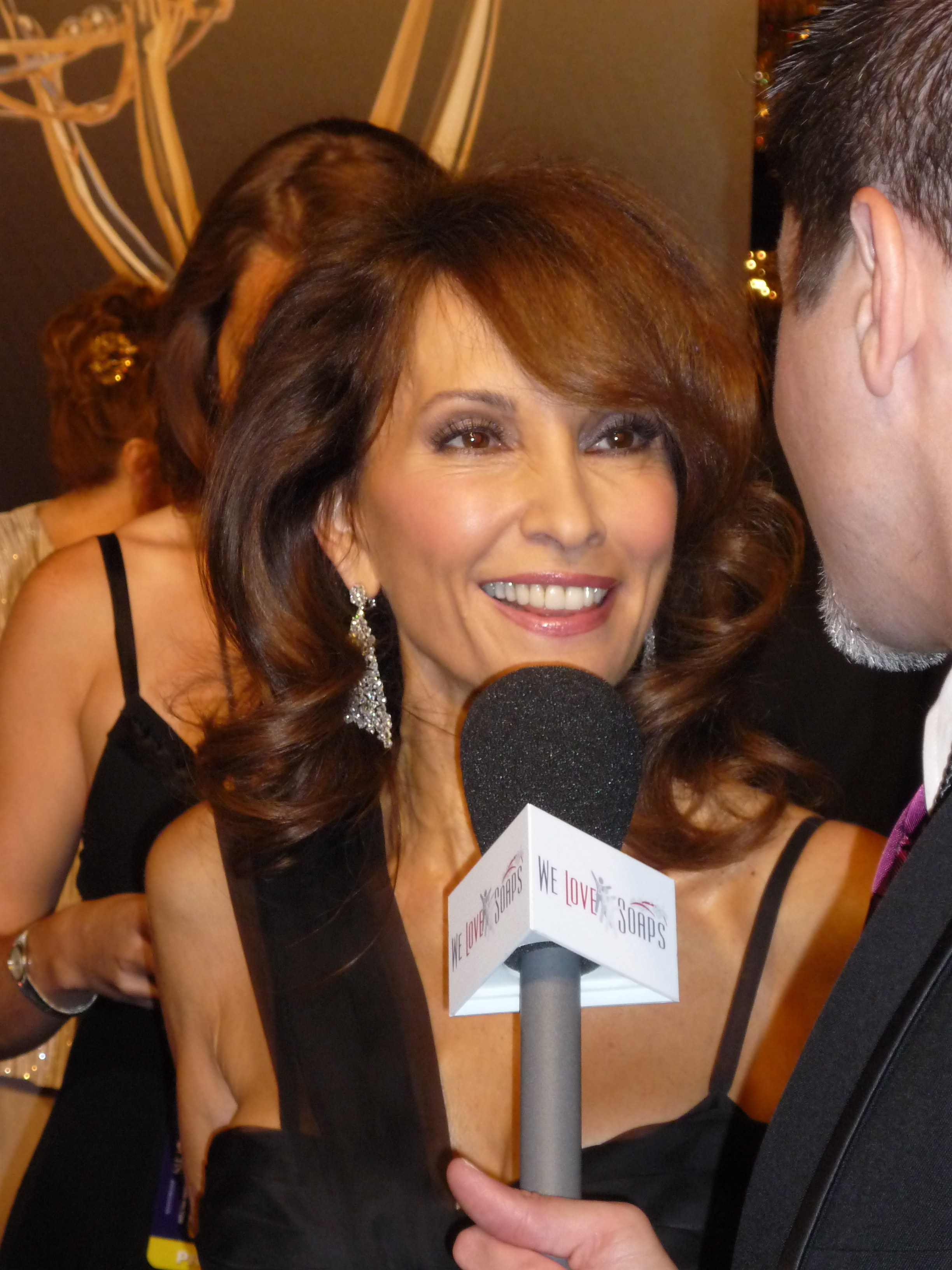 Actress Susan Lucci at 2010 Daytime Emmy Awards